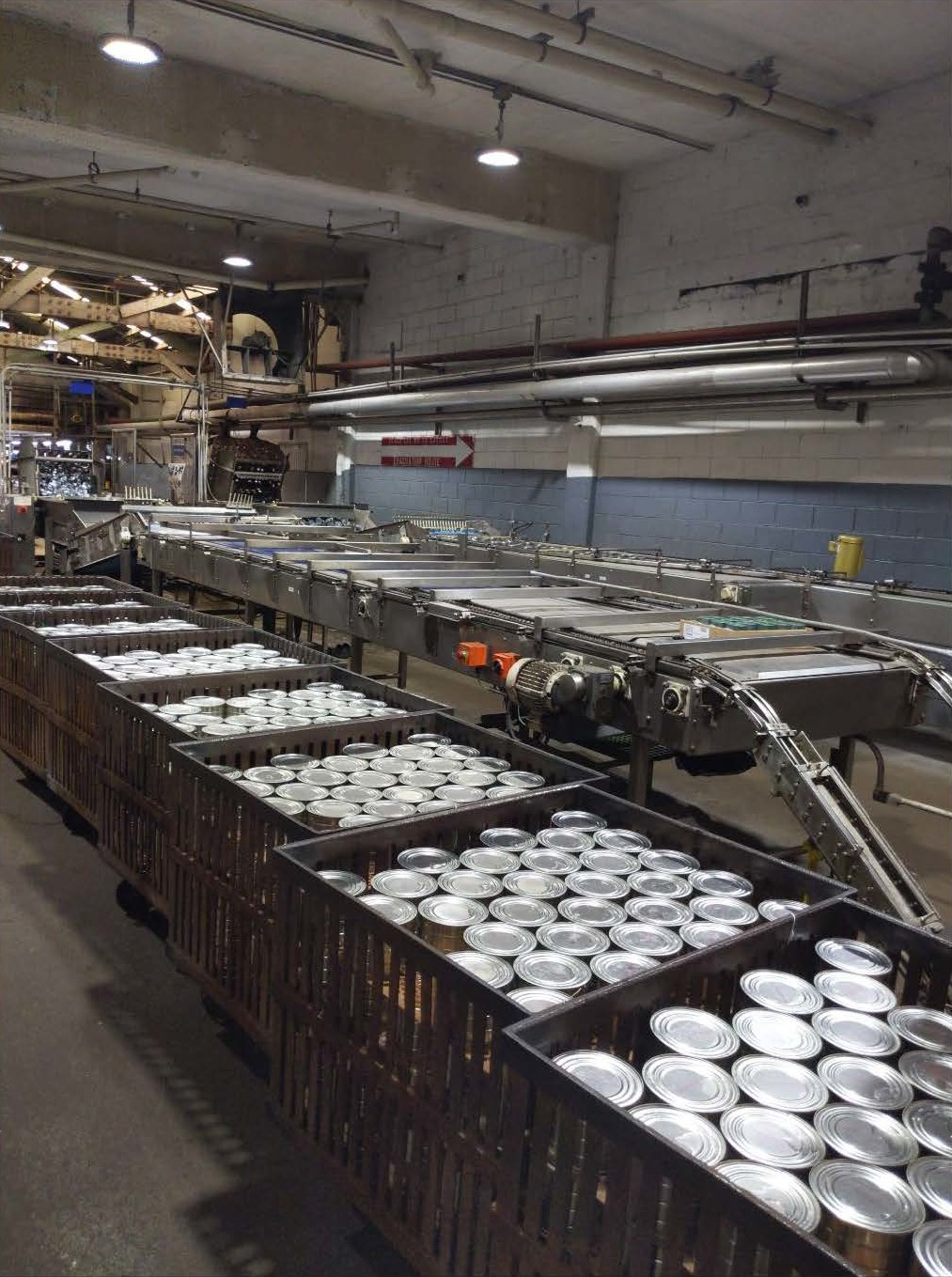 This image is excerpted from a U.S. GAO report: AMERICAN SAMOA: Economic Trends, Status of the Tuna Canning Industry, and Stakeholders' Views on Minimum Wage Increases